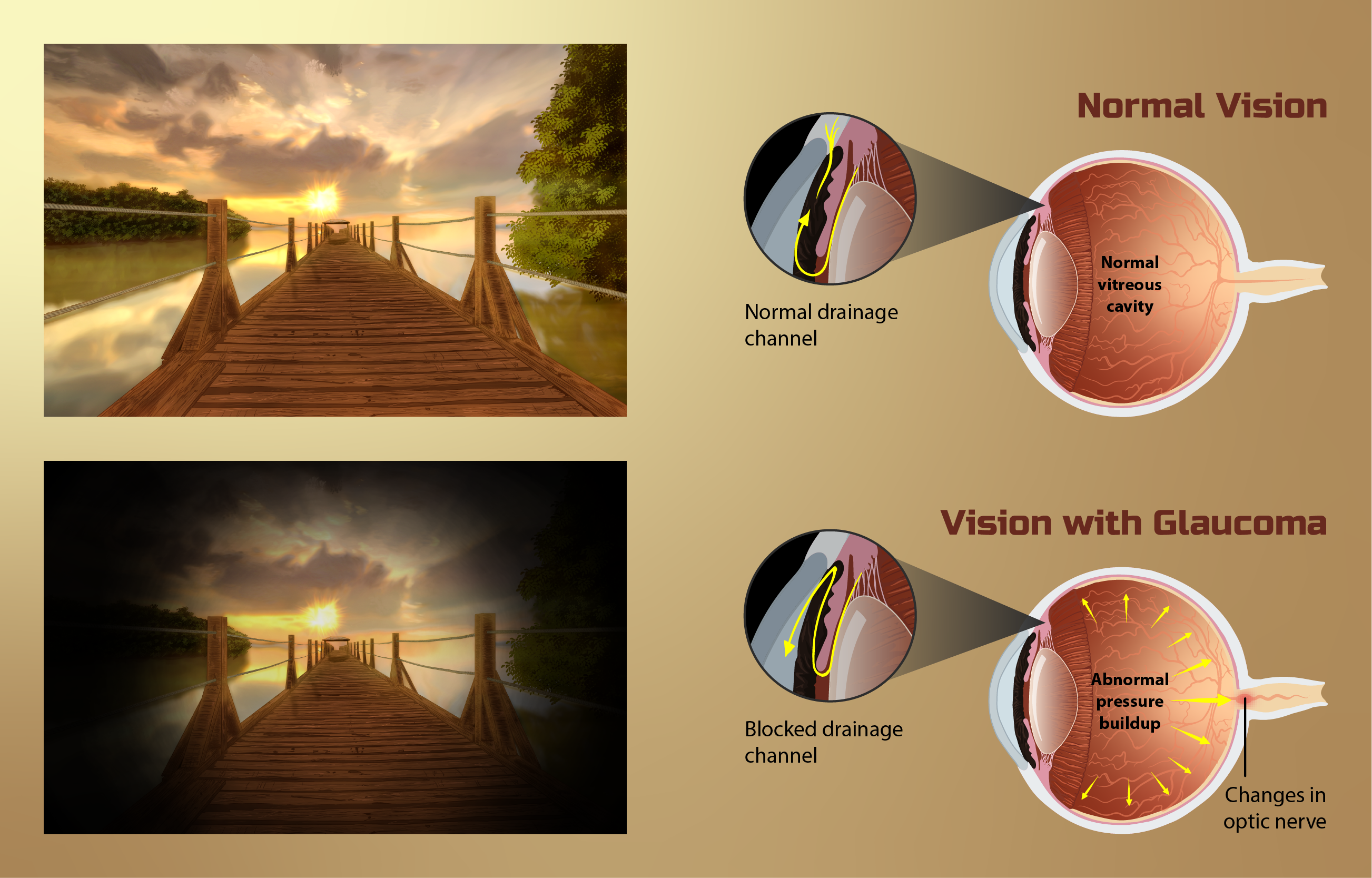 Depiction of vision for a Glaucoma patient. The typical pathophysiology associated with Glaucoma has been shown as well (blocked drainage channel in the eye and changes in the optic nerve).